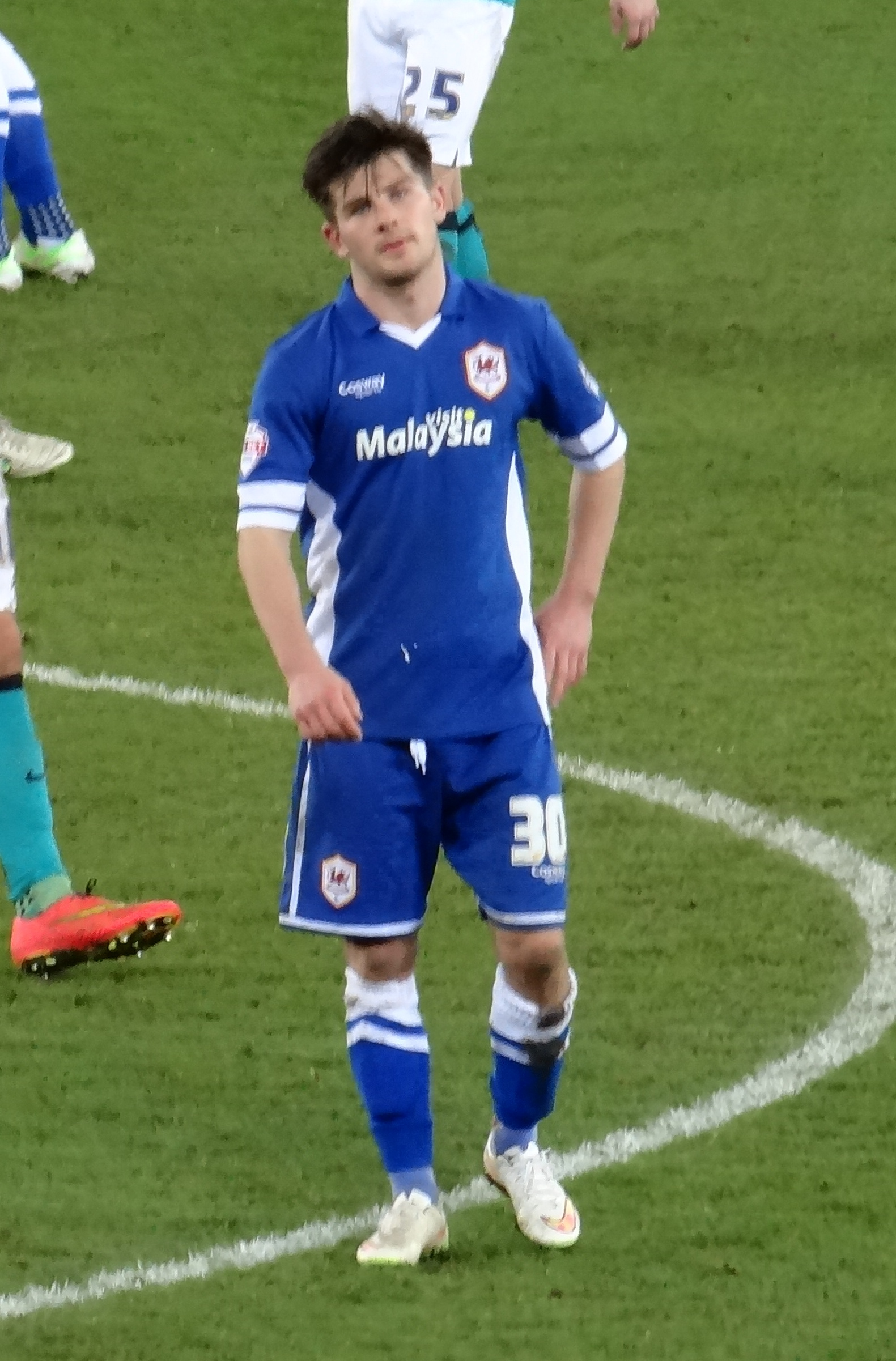 Footballer Matty Kennedy playing for Cardiff City.